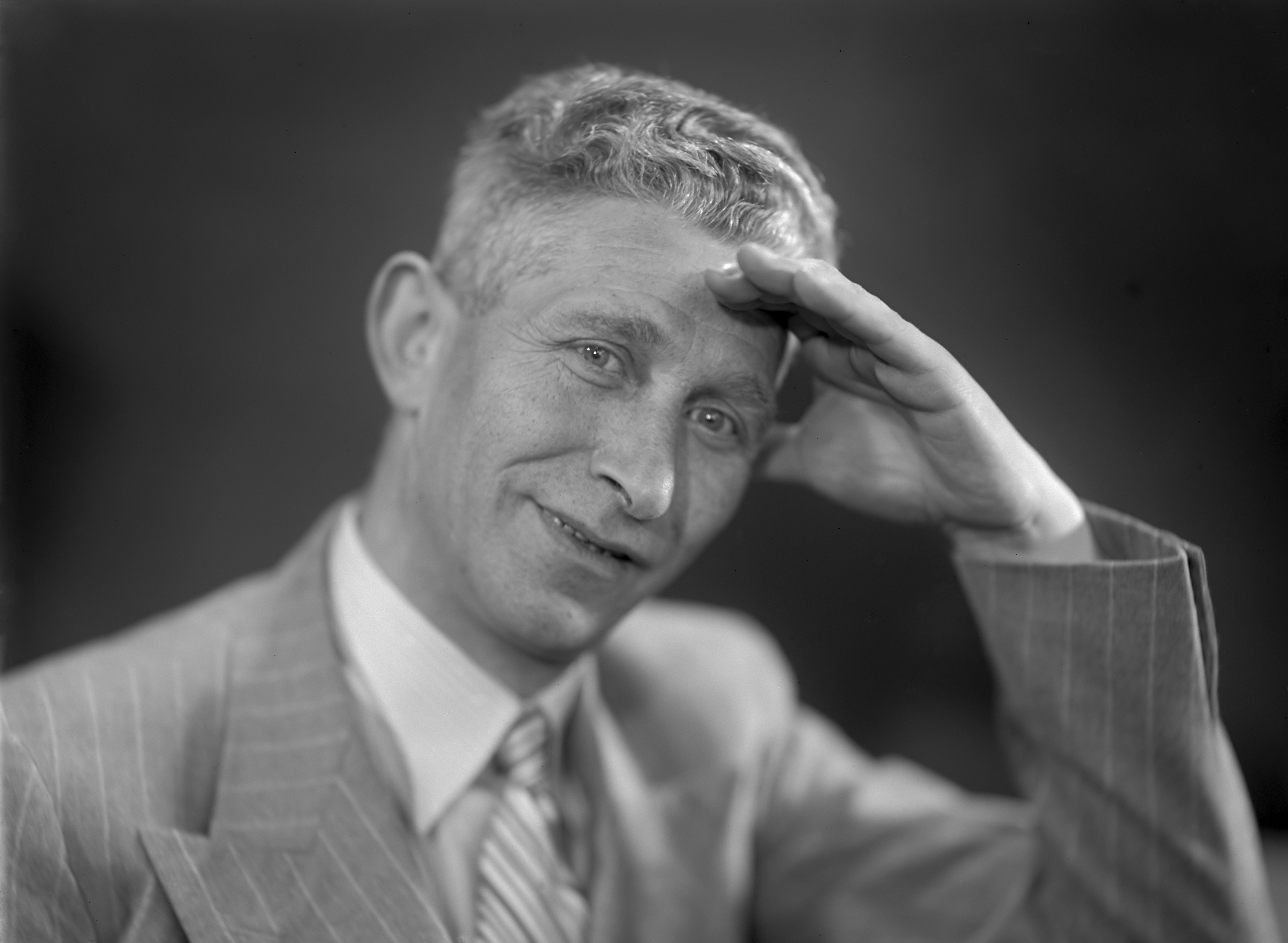 Han Hollander (1886-1943)